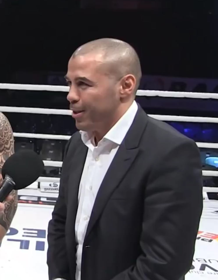 Former kickboxer Mike Zambidis interview